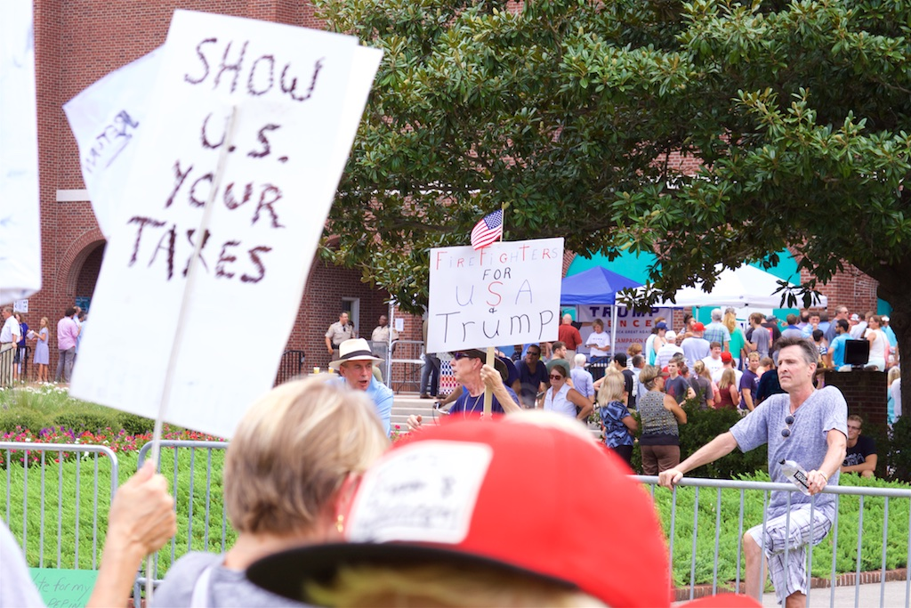 Photo captured at the August 9, 2016 campaign event held in Wilmington, NC at UNC-Wilmington's Trask Coliseum. Supports and protesters gathered outside the stadium before the speech.